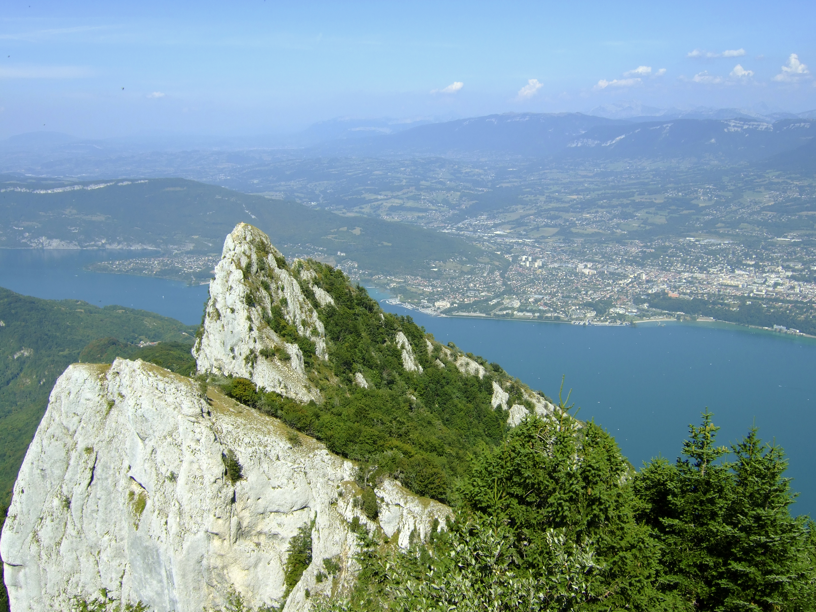 A west-side view of the Dent du Chat ("tooth of the cat") peak in the French Alps, above Lake Bourget (lac du Bourget). The city of Aix-les-Bains can be seen in the background along the eastern shore of the lake. Date of photo: 18 August 2009.